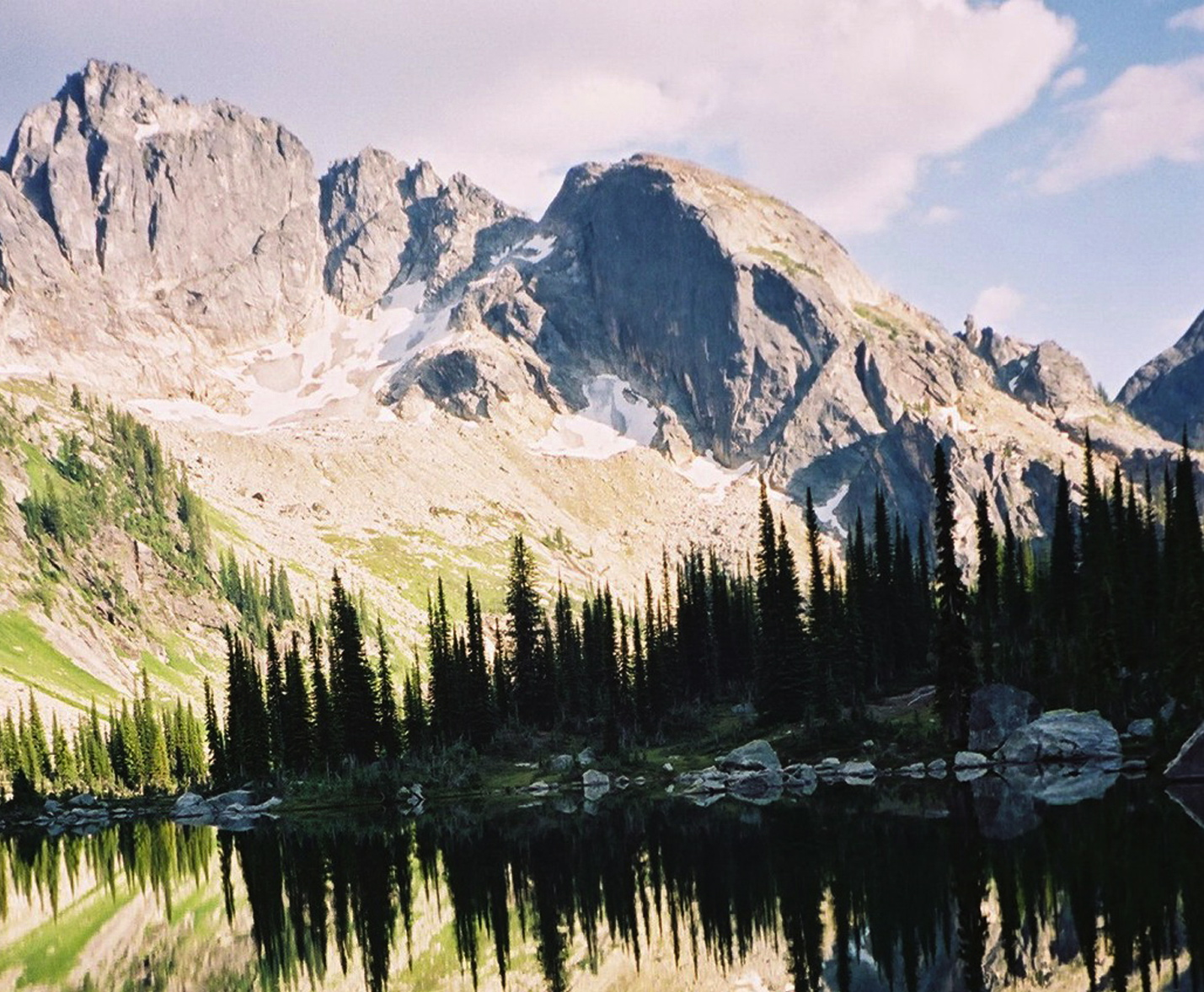 Drinnon Lake in Valhalla Provinicial Park, British Columbia, Canada